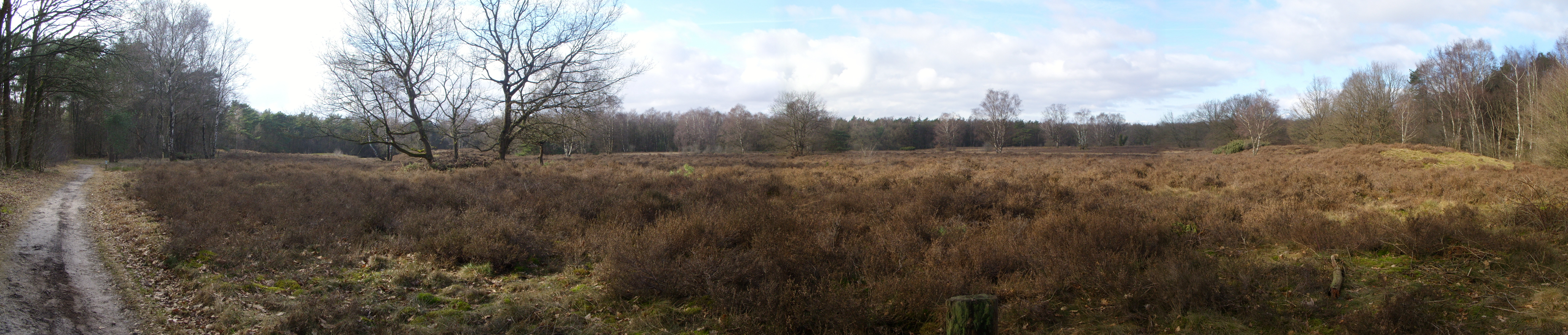 Panorama image of tumuli field near Vasse, Overijssel, The Netherlands